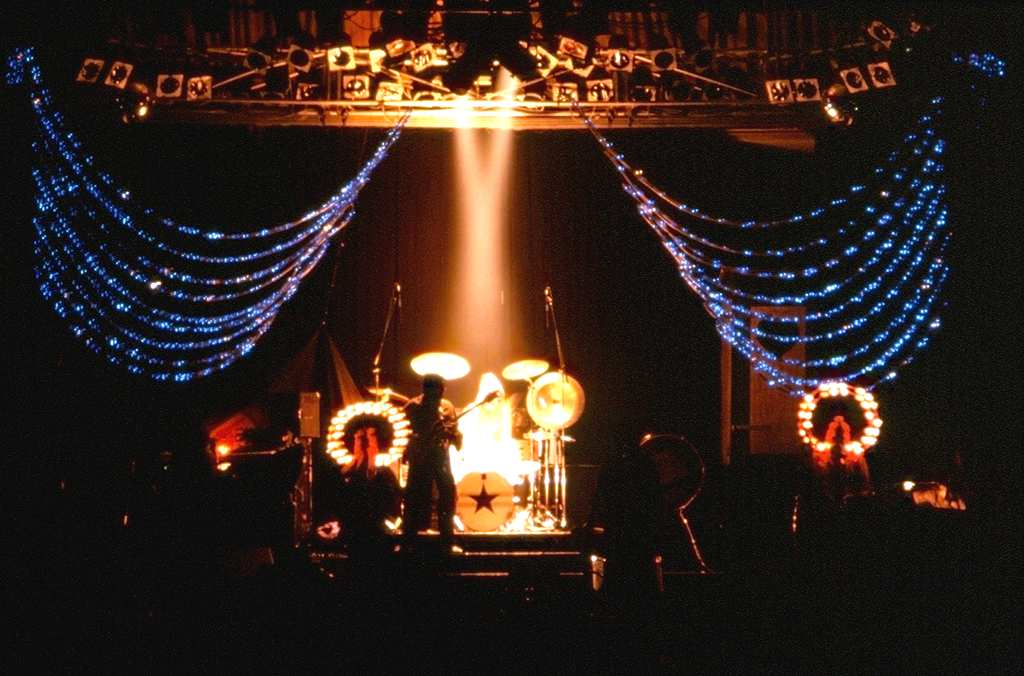 Light effects at the performance of the band